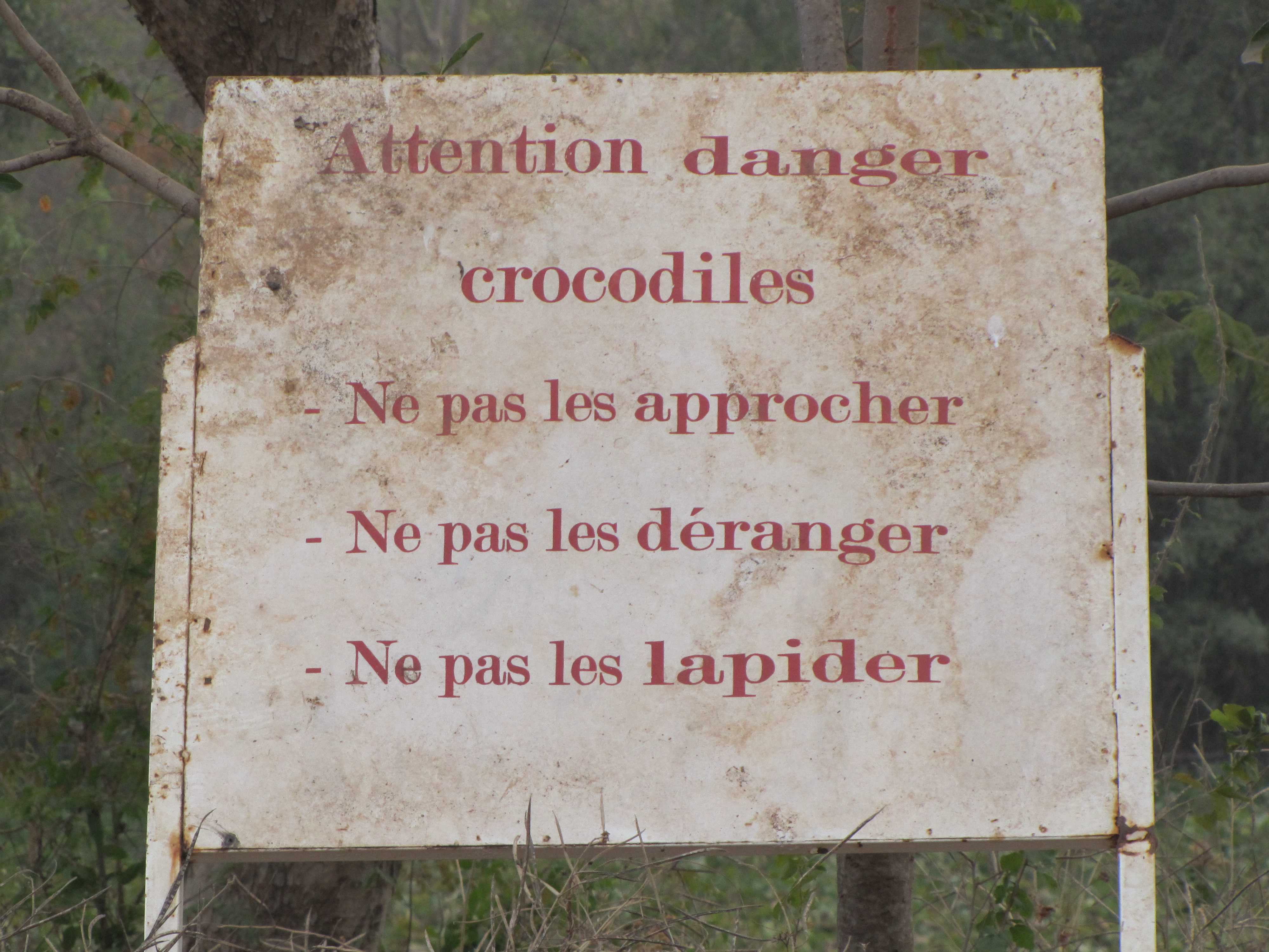 Sign "Beware - Crocodiles" in the Park 'Bangr-Weoogo' in Ouagadougou, Burkina-Faso